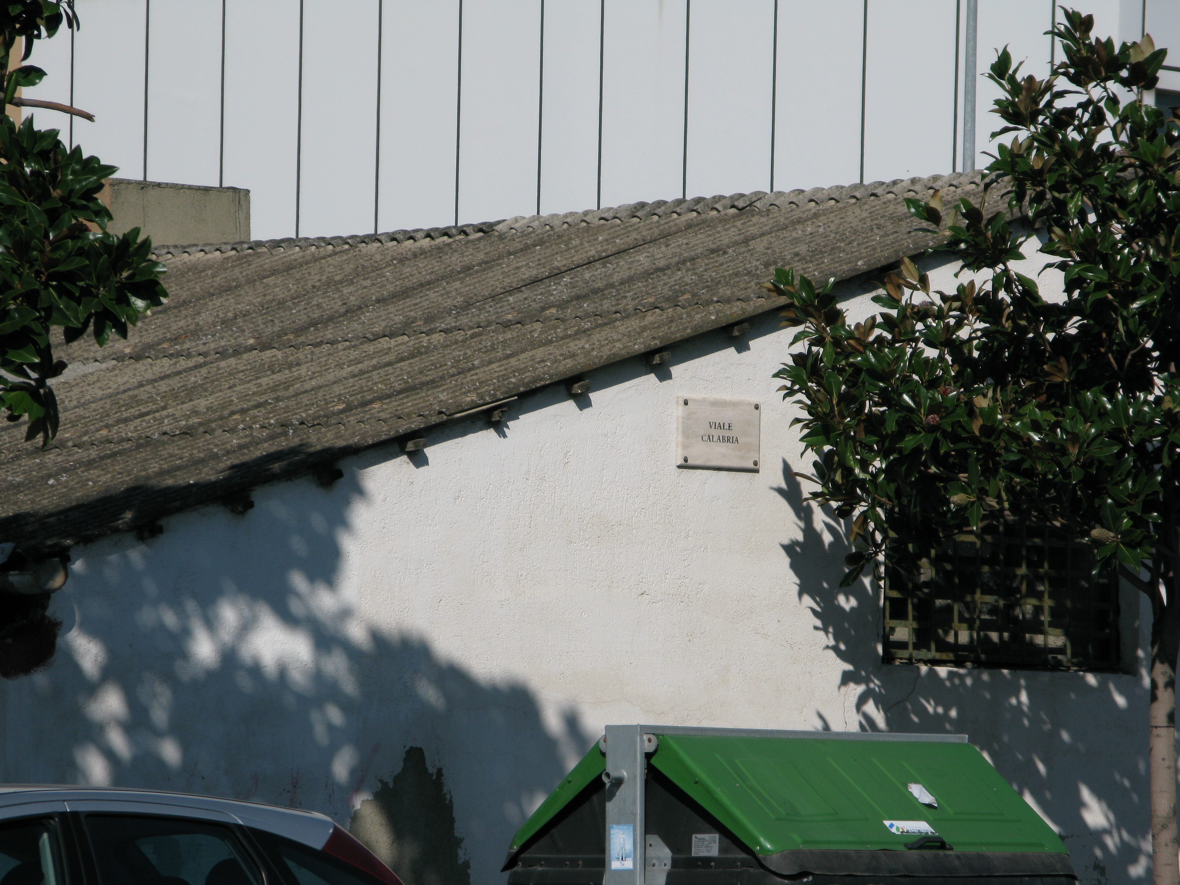 Eternit Gable Roof - via Calabria in Reggio Calabria, Italy - October 2009